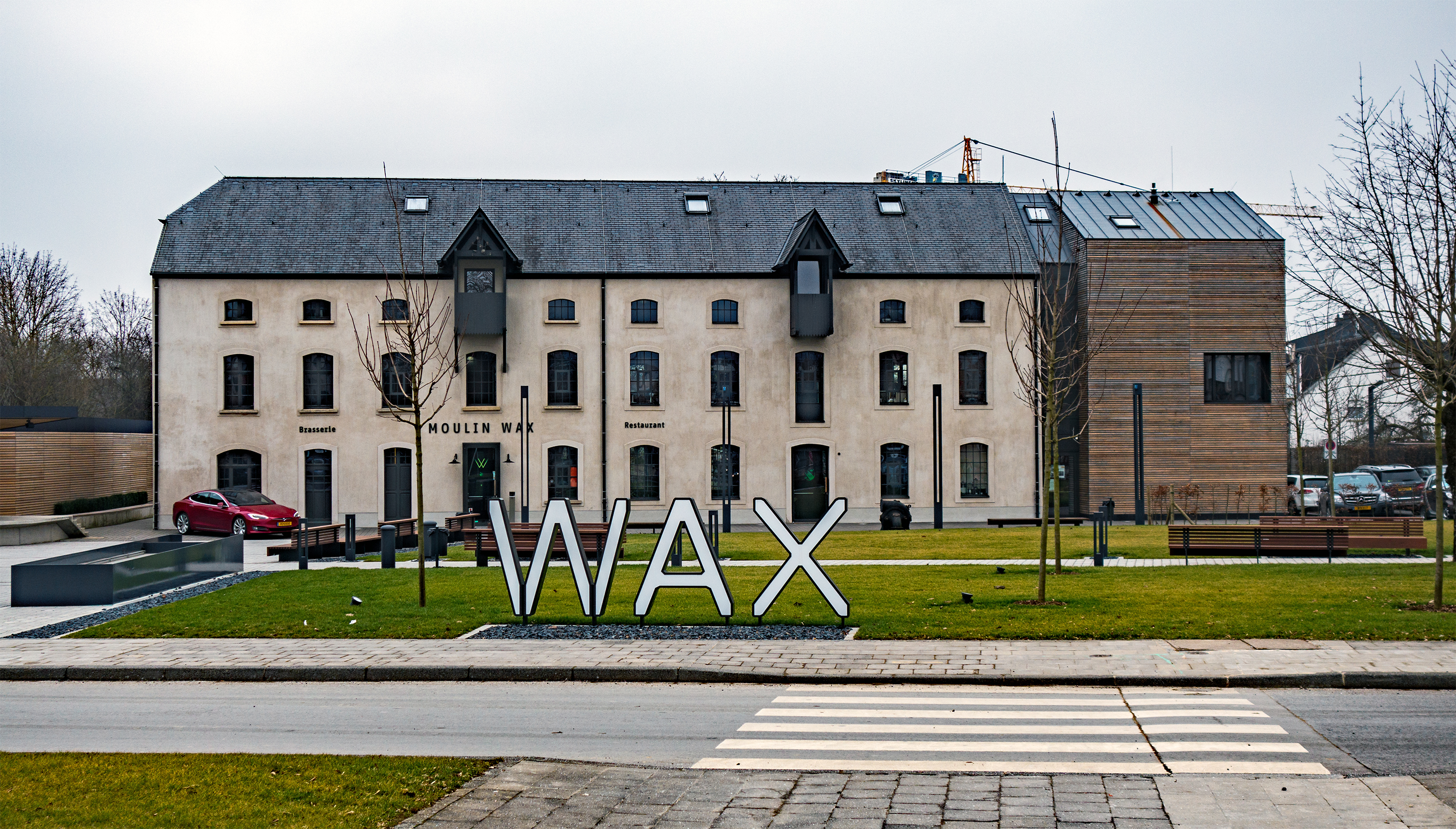 Cultural centre Wax in Pétange, a former mill